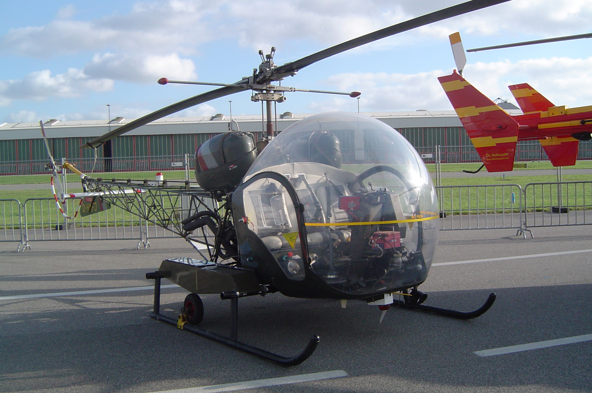 Bell 47 Helicopter on the Airports Days Hamburg 2007